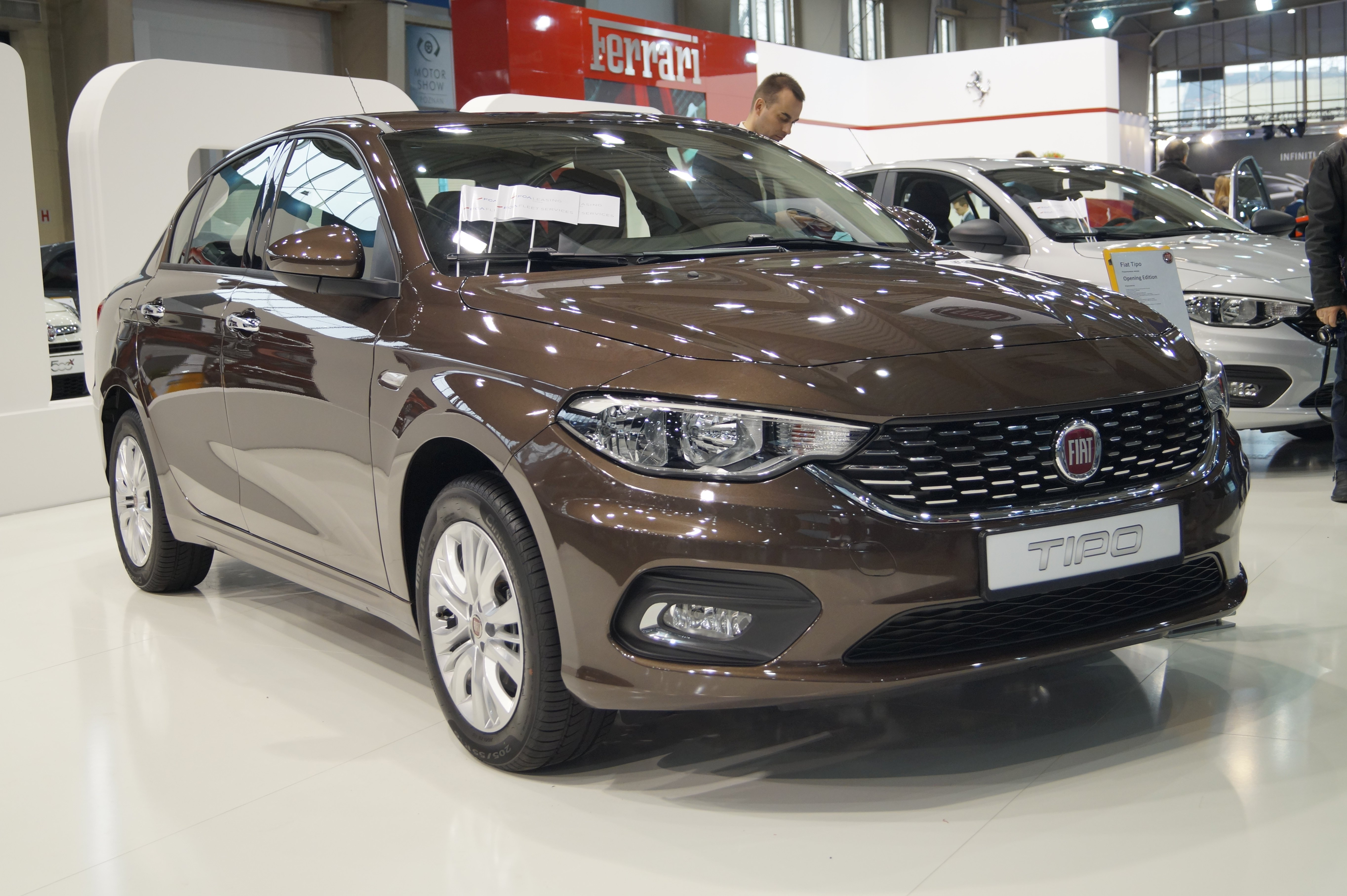 The making of this document was supported by Wikimedia Polska Association, within Wikigrant no. WG 2016-10. English | polski | +/− Przód Fiata Tipo na Motor Show Poznań 2016